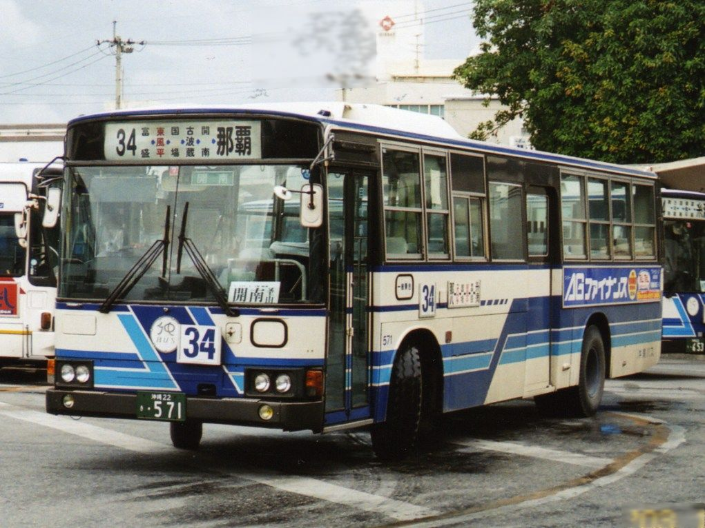 Okinawa Bus